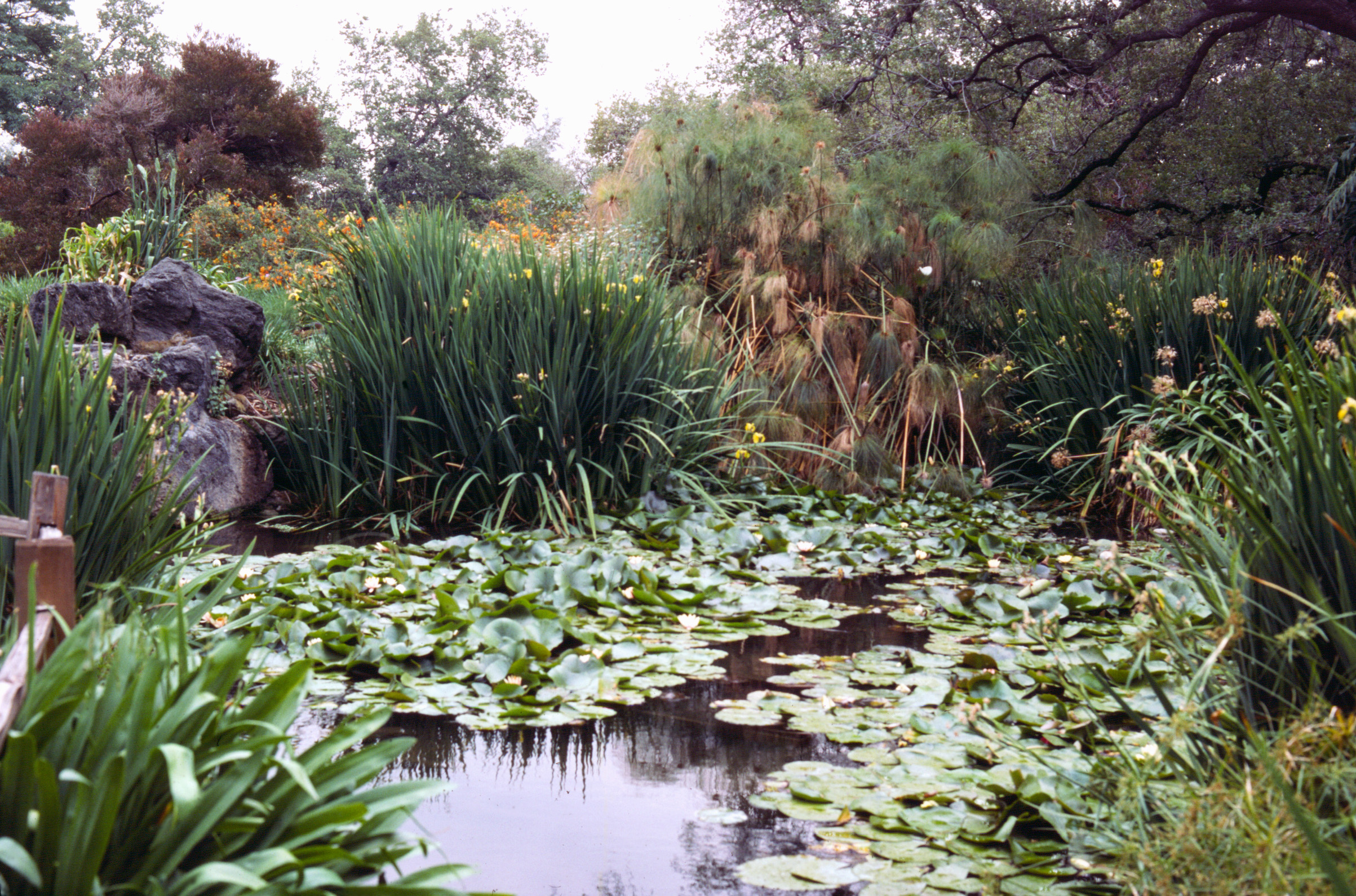 Garden pond, Los Angeles Arboretum. Photo by Gary O'Hoyt.